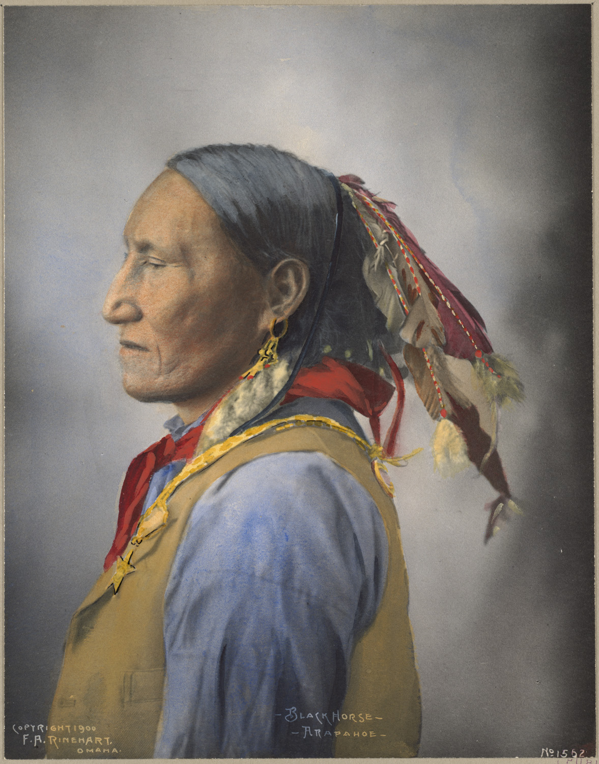 BPLDC no.: 09_06_000099 Rinehart no.: 1562 Title: Black Horse, Arapahoe Photographer: Rinehart, F. A. (Frank A.) Copyright date: 1900 Extent: 1 photographic print : platinum, hand-colored Genre: Platinum prints; Portrait photographs Subject: Indians of North America; Arapaho Indians; Trans-Mississippi and International Exposition (1898 : Omaha, Neb.) BPL Department: Print Department